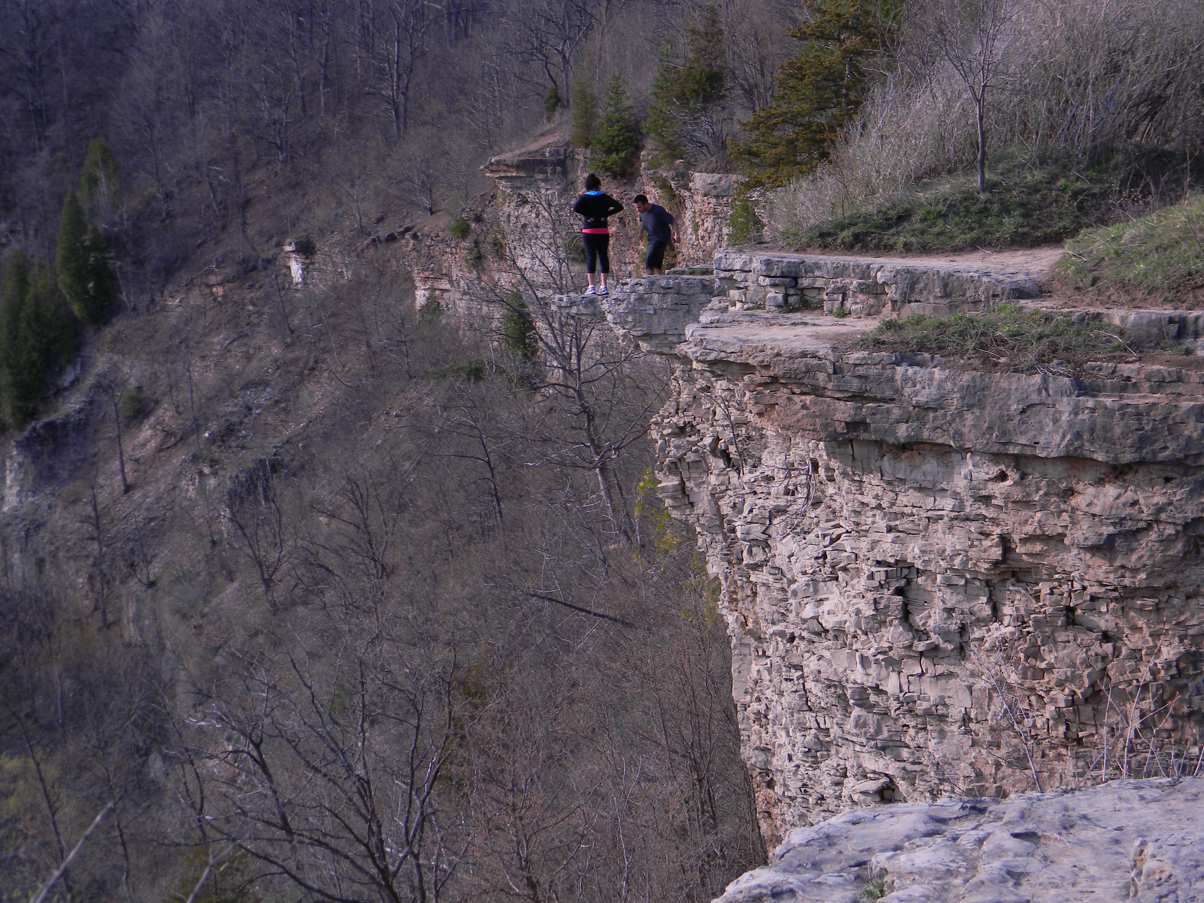 Dundas Peak, detail. Dundas, Hamilton, Ontario, Canada. Picture taken from Dundas Peak